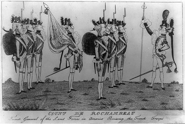 Caricature of Jean-Baptiste Donatien de Vimeur de Rochambeau (1725-1807). "Count de Rochambeau, French general of the land forces in America reviewing the French troops". Etching.